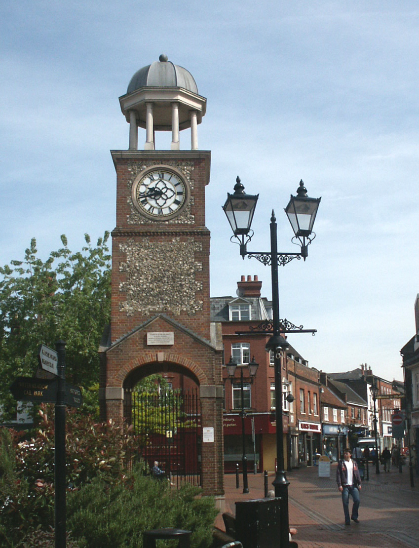 Chesham Clock Tower in Market Square. TMOL42_Taken May 29 2008